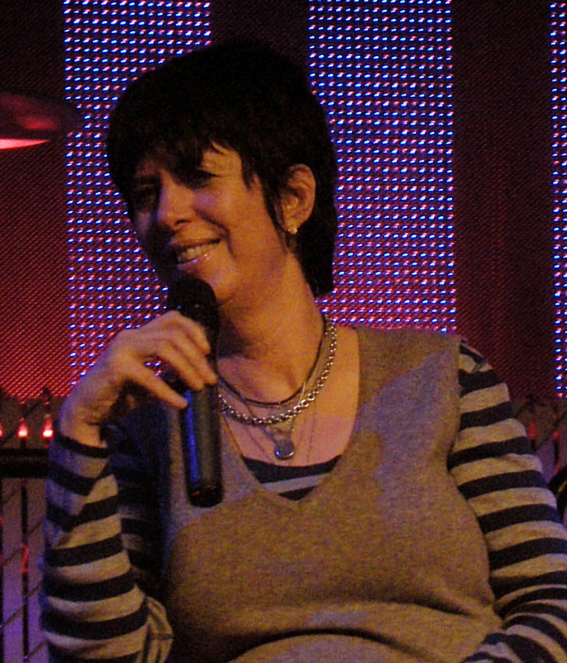 Diane Warren appearing at 2009 Pop Conference, Experience Music Project, Seattle, Washington.